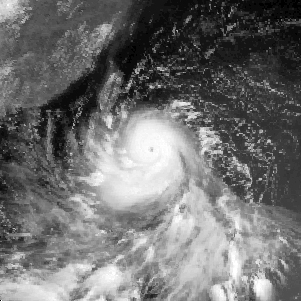 National Climatic Data Center GIBBS satellite archive ftp://eclipse.ncdc.noaa.gov/pub/isccp/b1/.D2790P/images/1983/205/Img-1983-07-24-03-GMS-2-VS.jpg